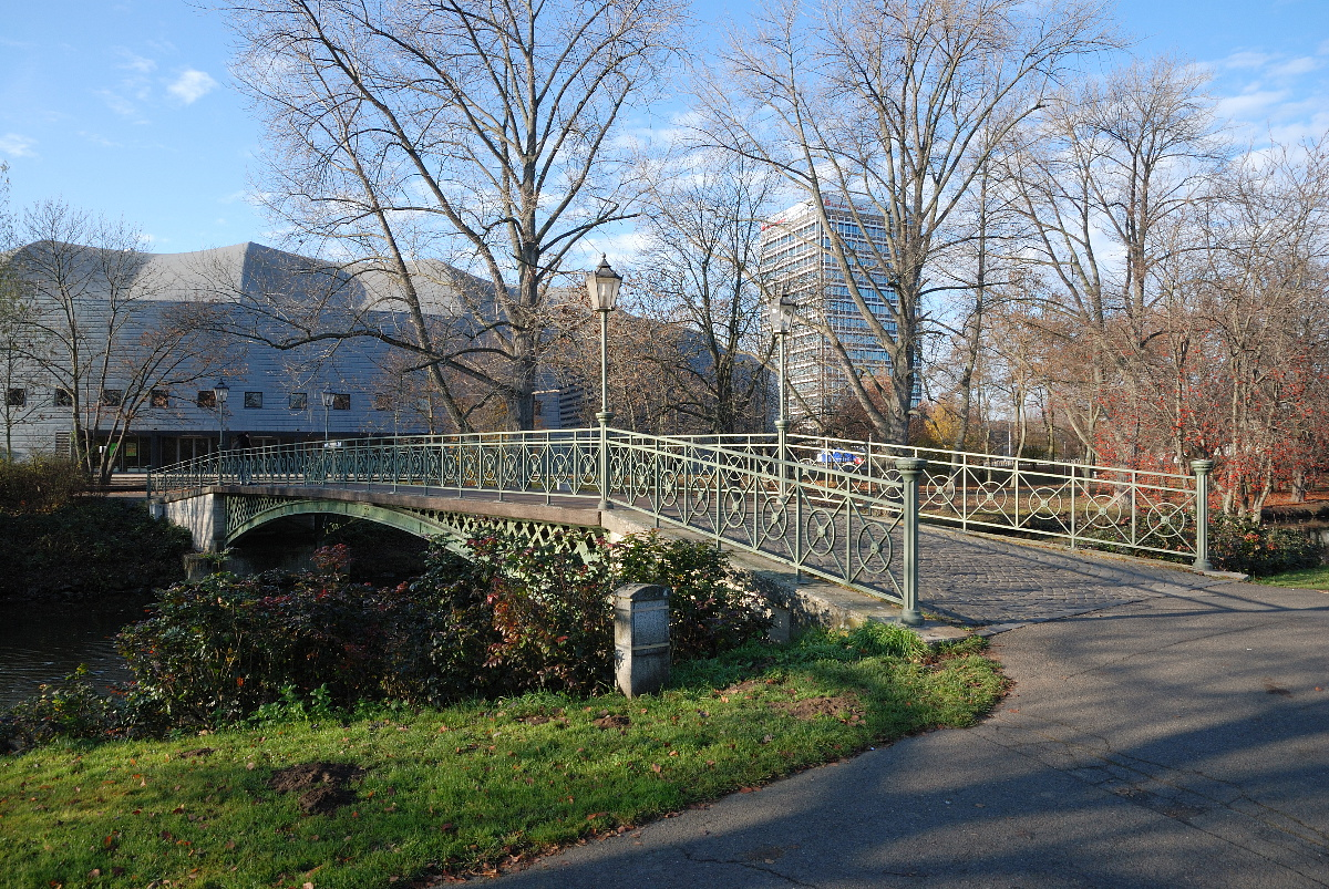 Sousse-Bridge in Brunswick